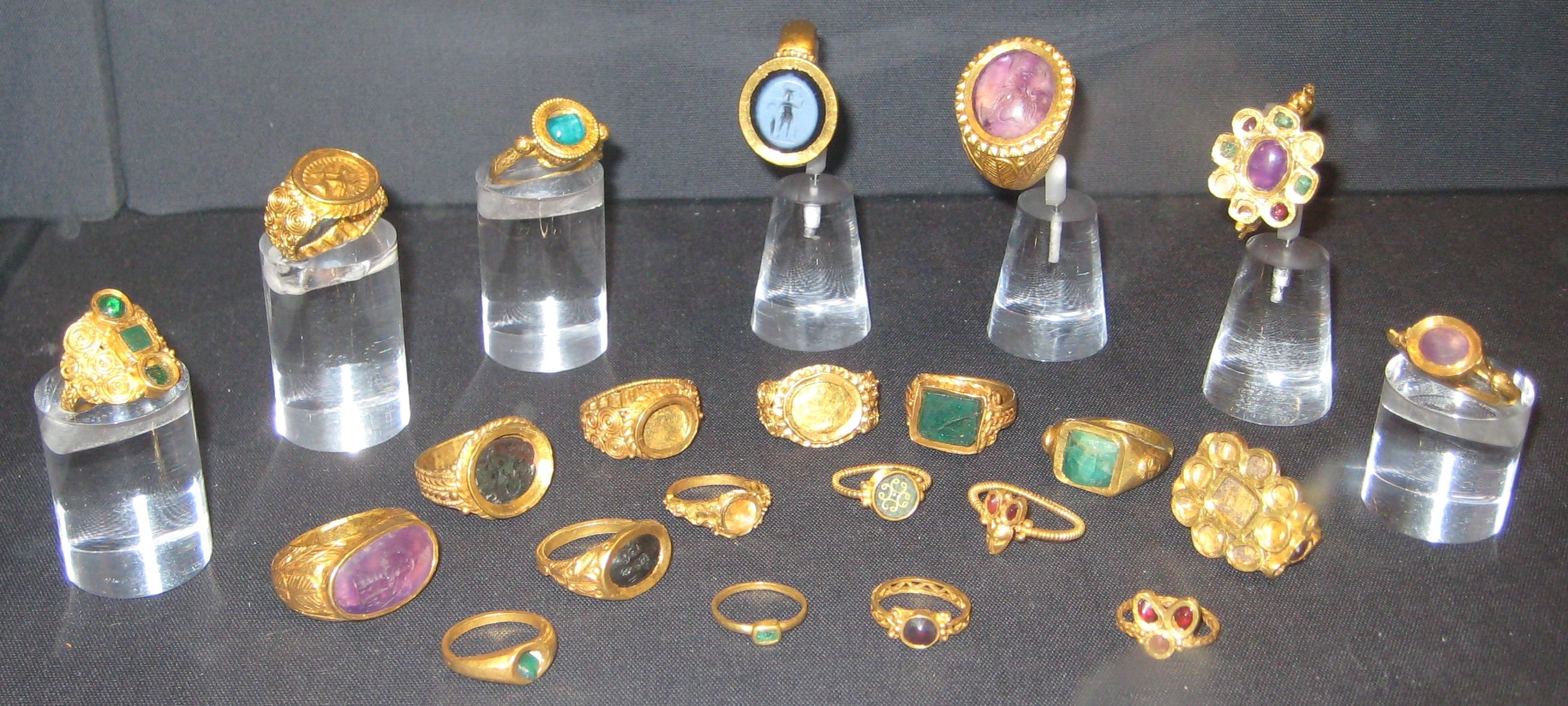 Twenty-two rings from the Thetford Hoard